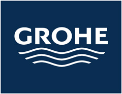 The new GROHE logo